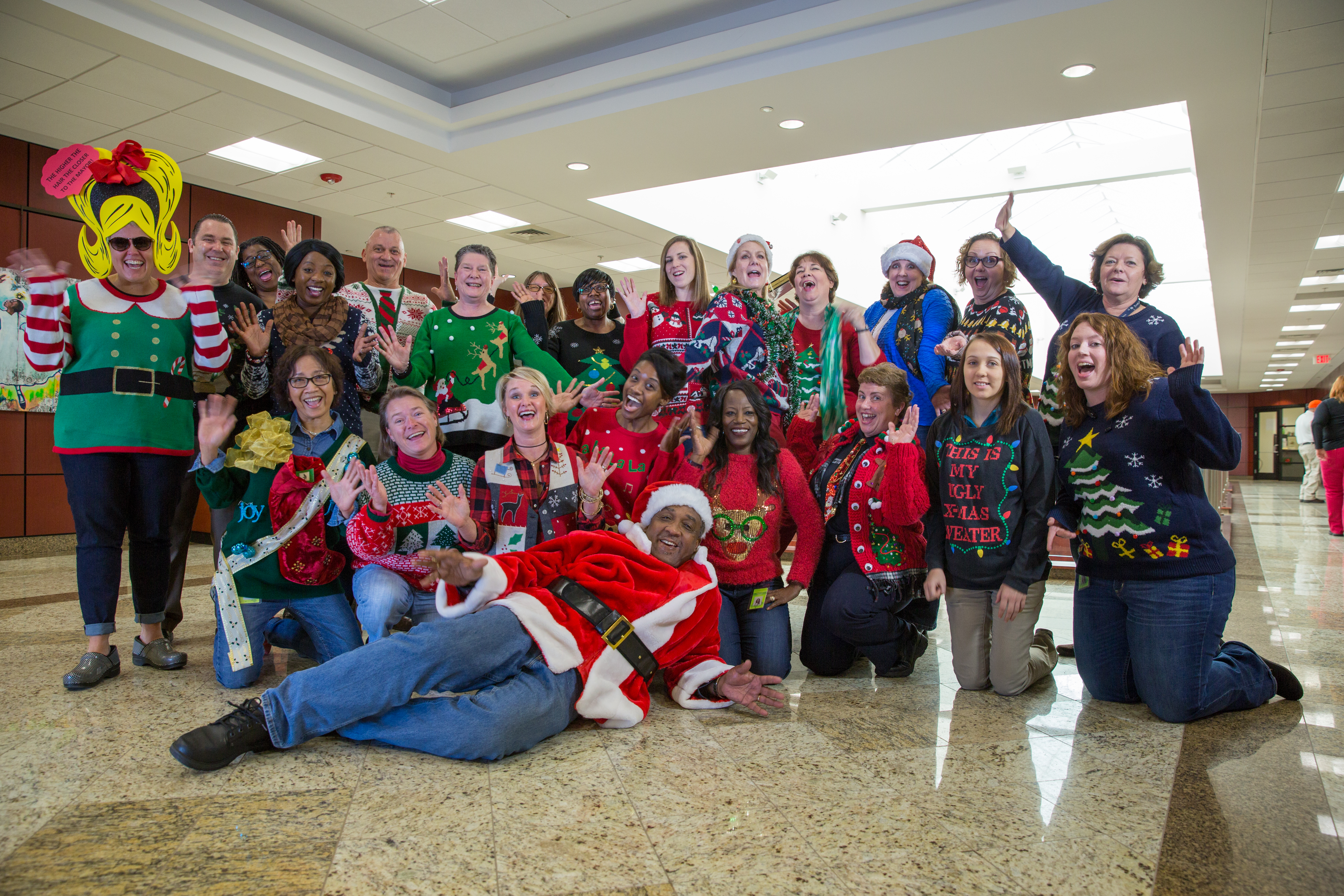 Employees at the City of North Charleston participate in Ugly Christmas Sweater Day. Photo by Ryan Johnson